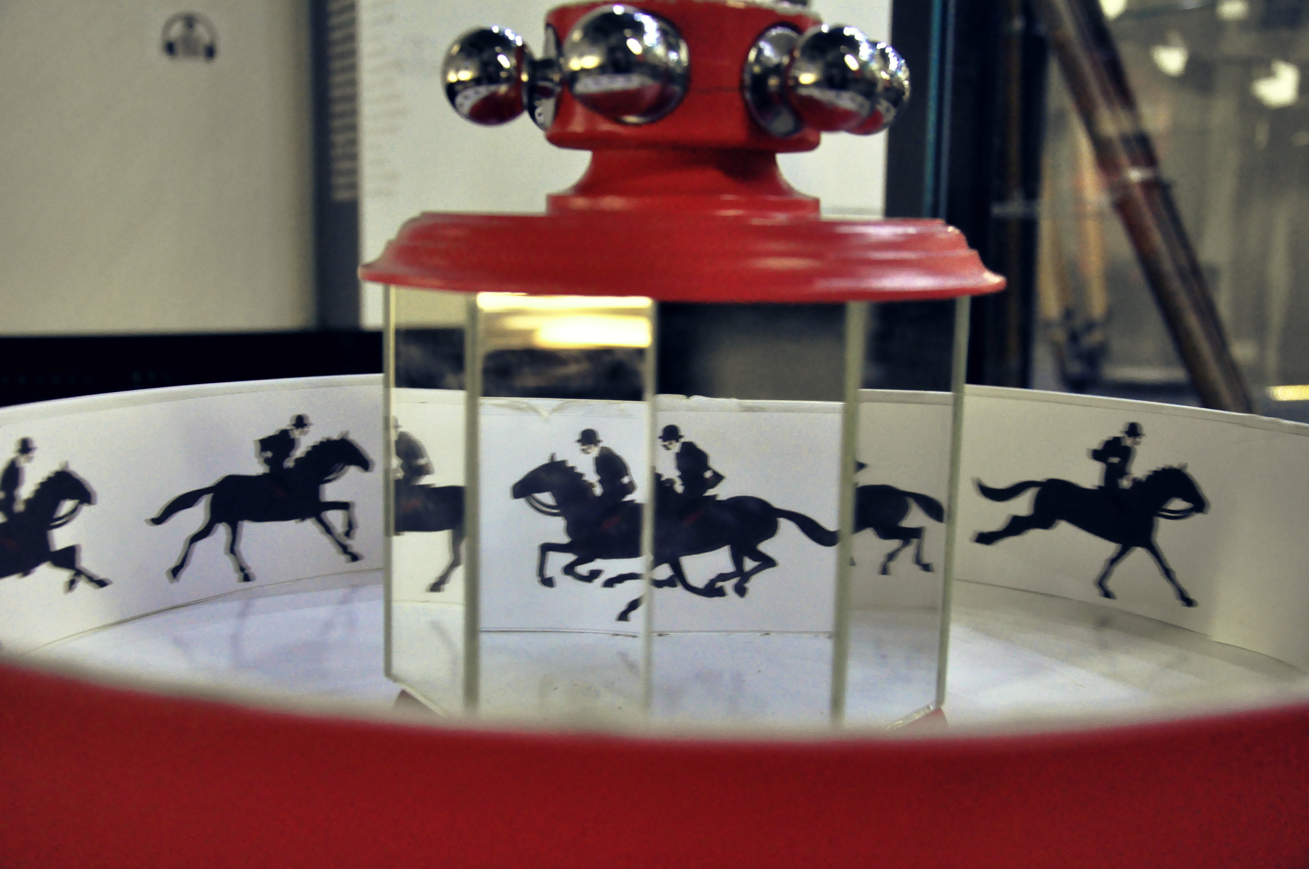 Praxinoscope at the Moscow Museum of Cinema, March 2019